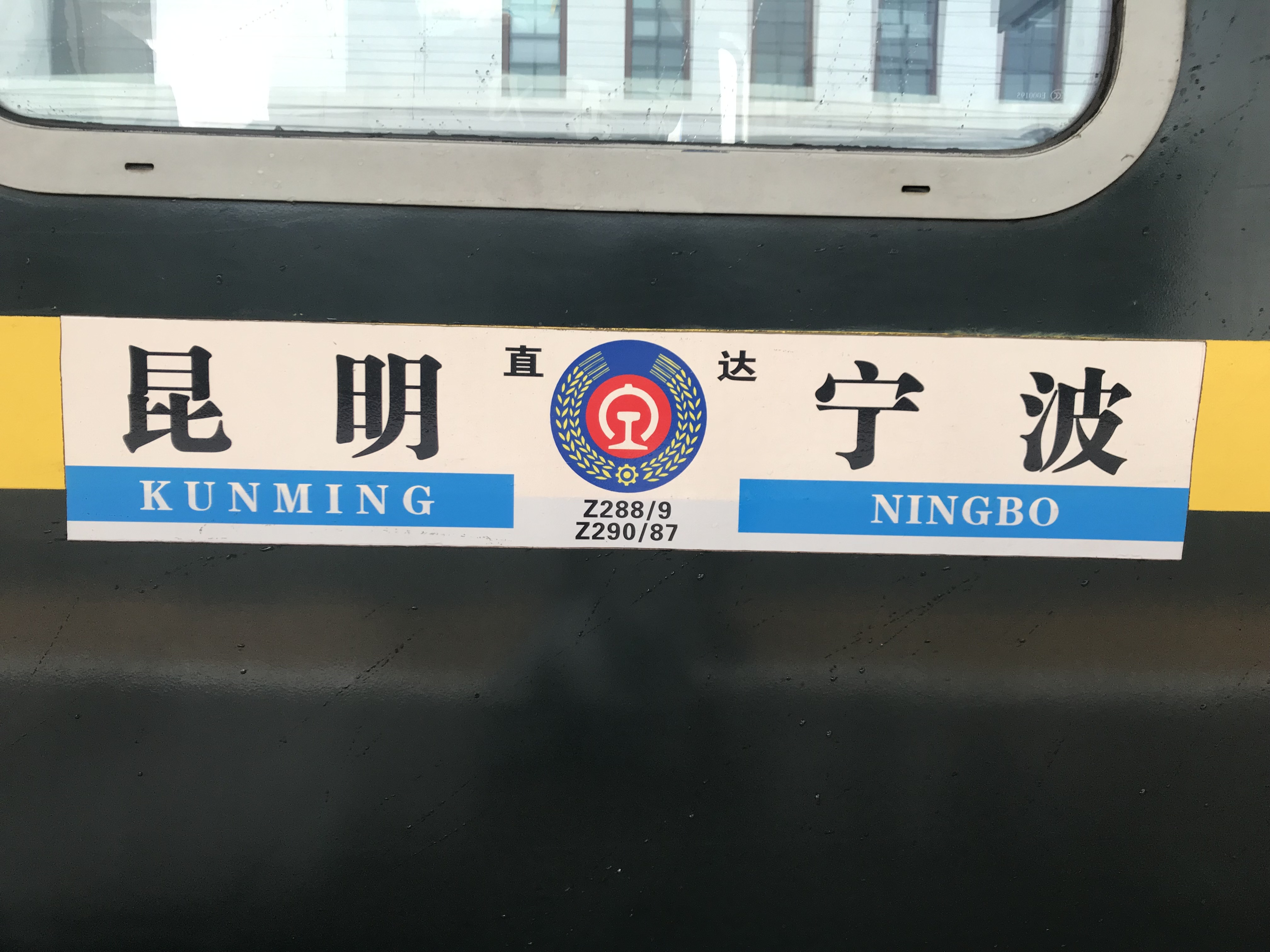 Delayed for 30 mins...